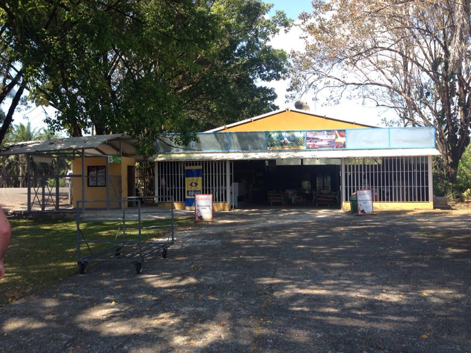 This is the terminal building at the Quepos Airport. Inside are the Nature Air and Sansa ticket counters, along with restrooms, a snack stand / bar, and a stand to pay the Costa Rican departure tax. To the left is the airport entrance, where a $3 USD per person entrance fee must be paid.